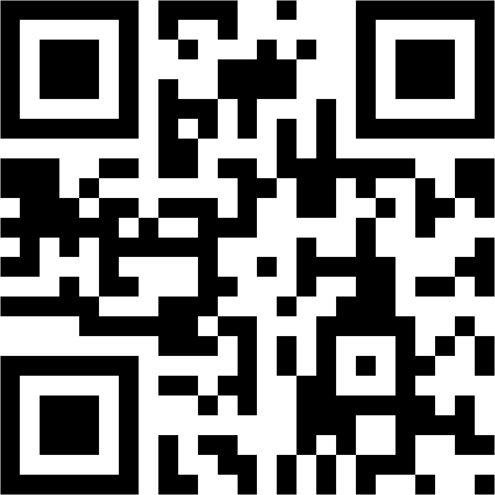 QR code redirecting to WP-fr.